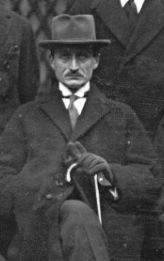 Muzaffer Ergüder